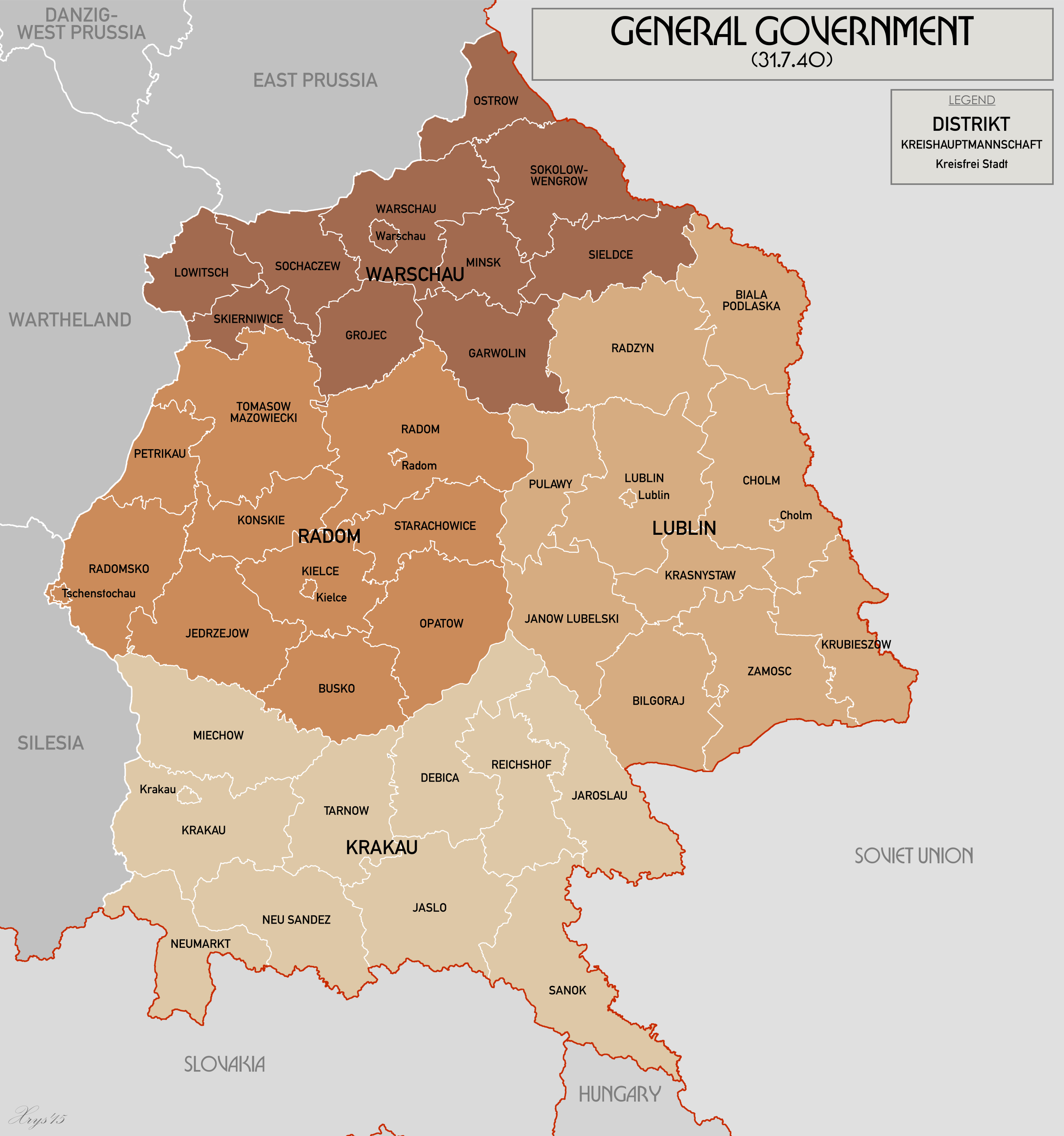 Administrative Map of the General Government in 1940, before the invasion of the Soviet Union. Map data from Karte des Deutschen Reiches 100k, Mapa Administracyjna Rzeczypospolitej Polska 300k (courtesy of mapyWIG).